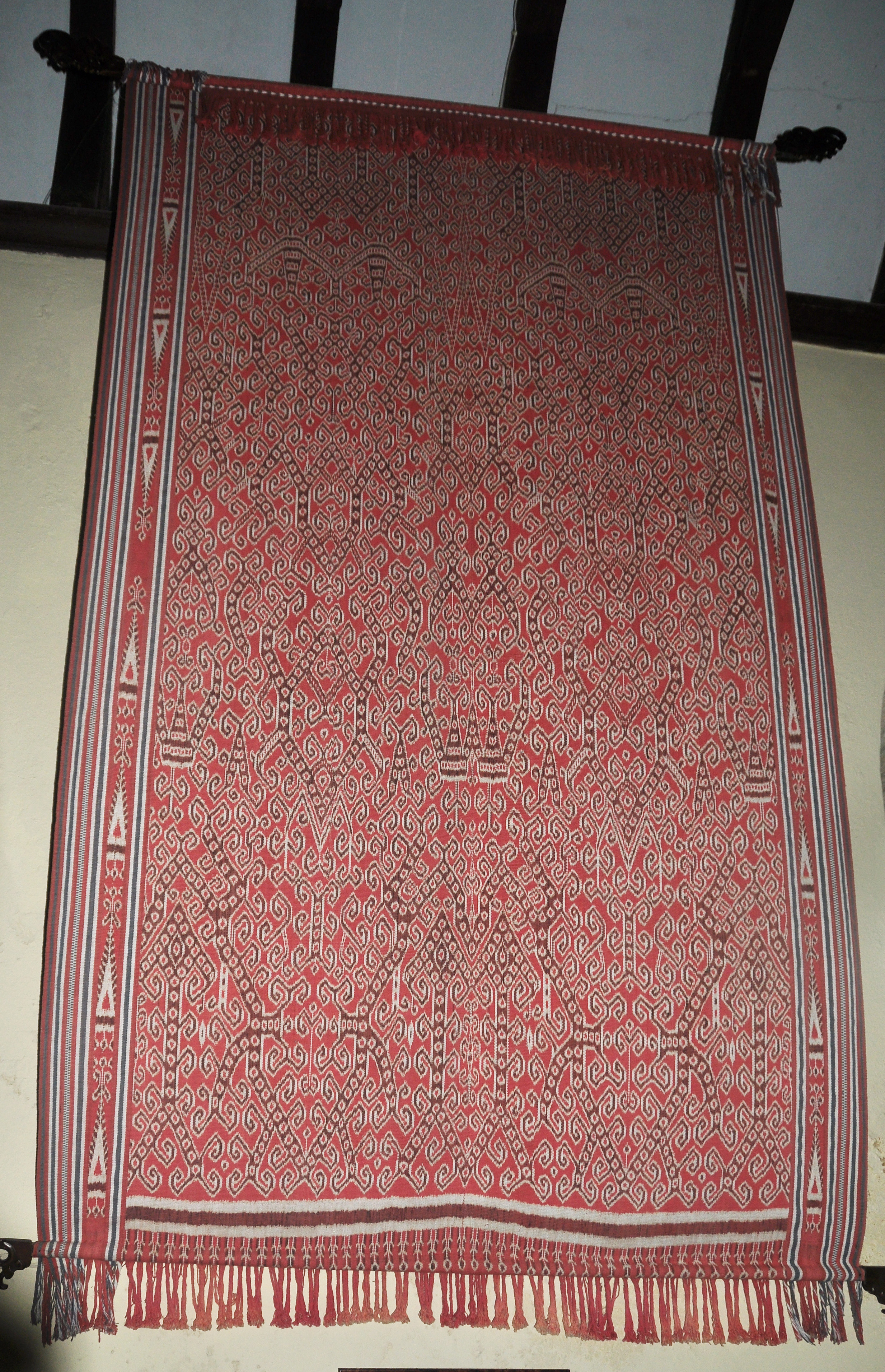 A Pua Kumbu in Sheepstor parish church, on Dartmoor. It was donated to the church by the people of Sarawak in memory of the White Rajahs